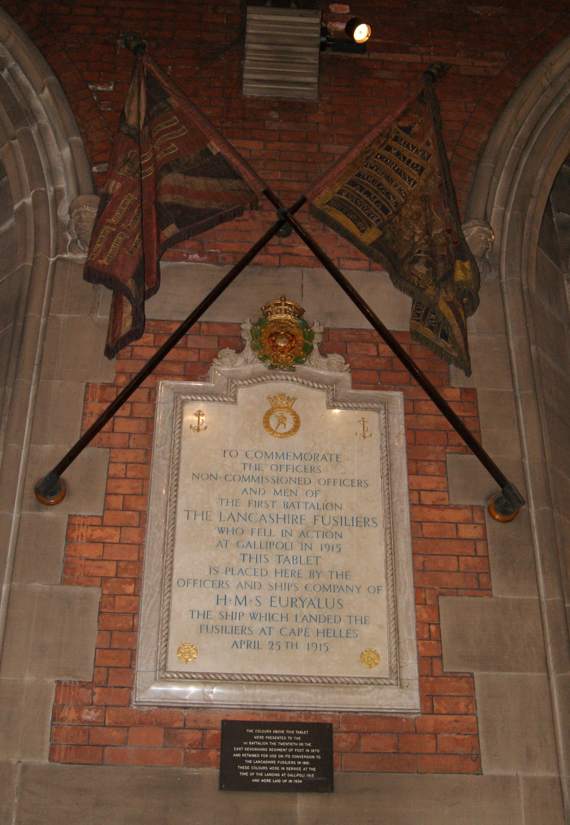 Memorial tablet to the men of the 1st Battalion, Lancashire Fusiliers who fell at Gallipoli, erected by the crew of HMS Euryalus, in St Mary's Church, Bury. Cropped from File:HMS Euryalus memorial to the Lancashire Fusiliers, Bury parish church.jpg.